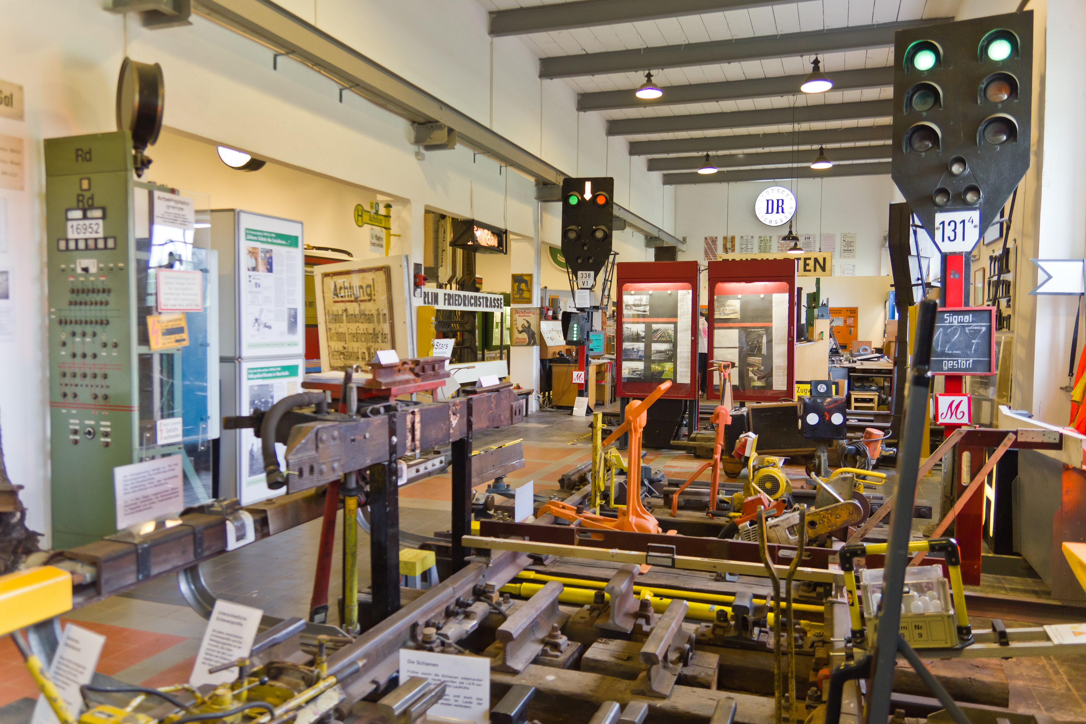 The Berlin S-Bahn Museum in Potsdam, Germany